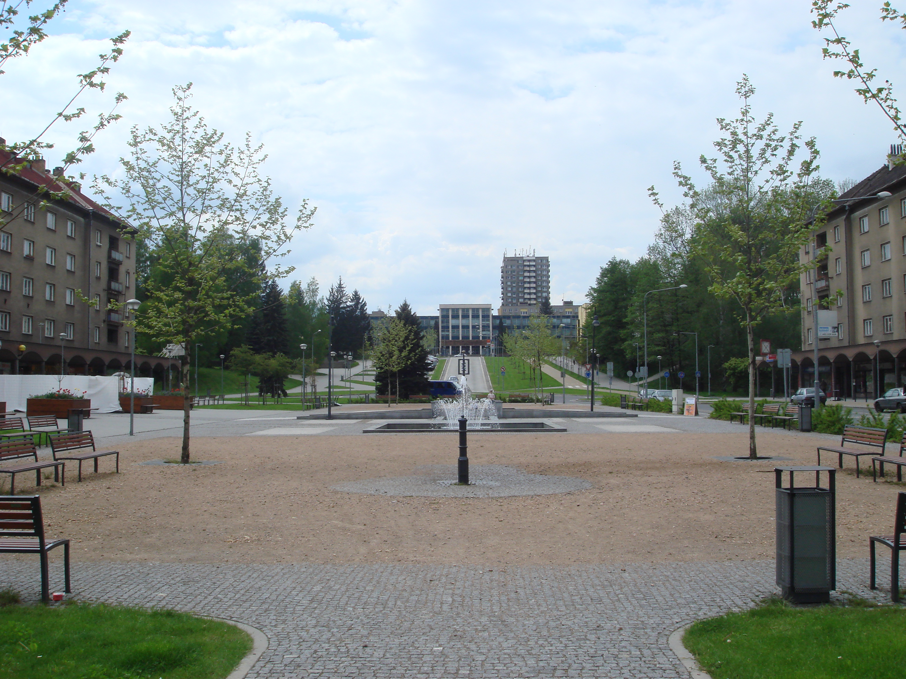 T. G. Masaryk Square in Třinec (Moravian-Silesian Region, Czech Republic).